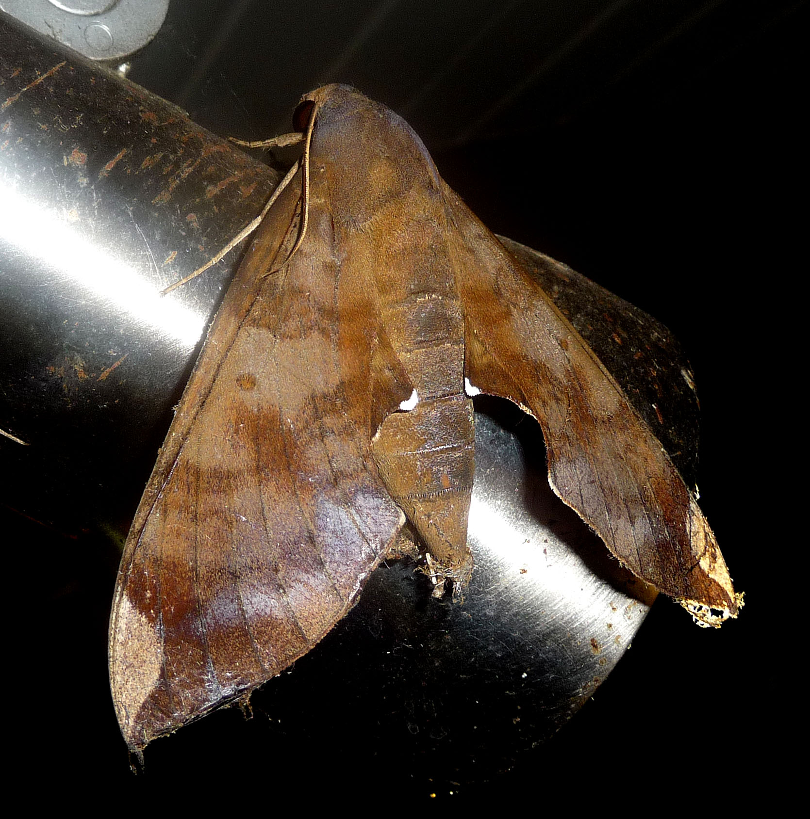 Family: Sphingidae, Latreille, 1802 Subfamily: Macroglossinae, Harris, 1839 Tribe: Dilophonotini, Burmeister, 1878 Genus: Pachylia Walker, 1856 ........... Species: ficus Linnaeus, 1758